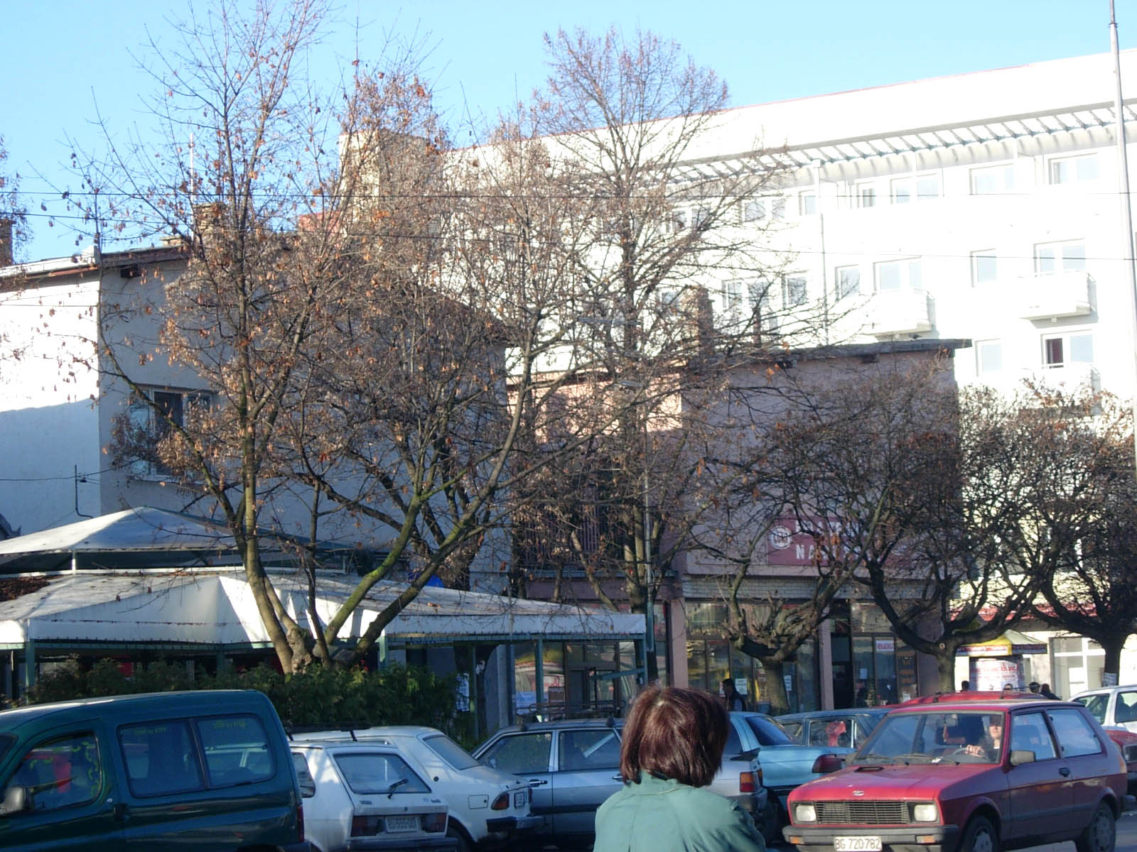 Building in Nova Pazova. The razed Evangelical church stood here until the end of the 1940s.